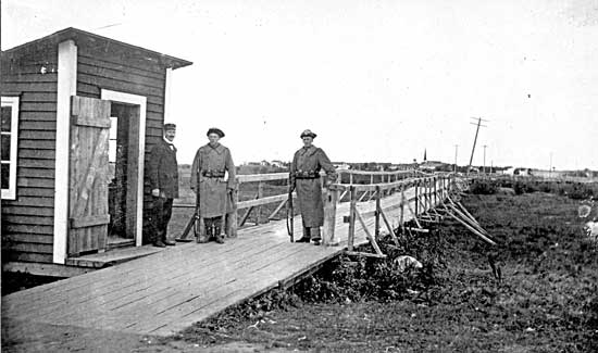 Historical wooden footbridge between Tornio and Haparanda, thus between Finland and Sweden. The bridge was built by Karl Handolin, the head of local telegraph office at Haparanda. Toll was collected for passover the bridge in the form of token coins.